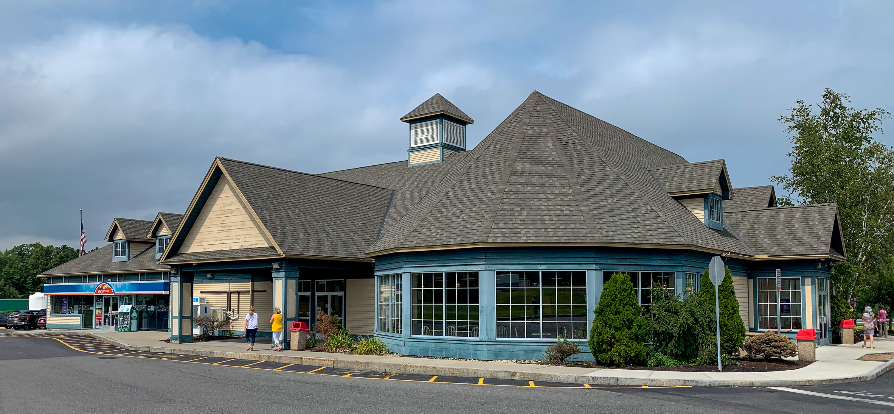 Westbound Ludlow Rest Stop on Interstate 90 in Massachusetts, USA